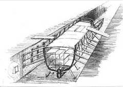 Sezione nave